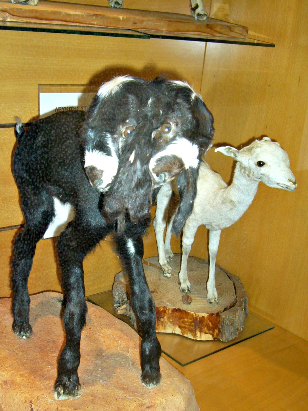 Museum of Natural History in Nicosia - two-headed lamb